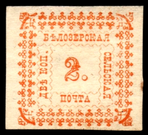 Bielozersk Zemstvo stamp, Russia, late XIX c.